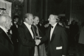 The photo contact sheet, identified as B1937 by the White House Photographic Office (WHPO), is housed at the Gerald R. Ford Presidential Library, a branch of the National Archives and Records Administration (NARA). This file is a 200 dpi photo contact sheet having images from roll of film B1937 of the August 9, 1974 - January 20, 1977 Gerald R. Ford White House Photographic Office Series A0001-A9999 and B0001-B2886 photographs. The date on the photo contact sheet is the date the roll of film was processed, not necessarily the date the photographs were taken. See table below for additional details.